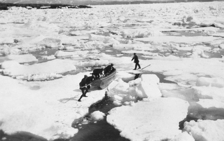 Photograph, Going ashore at Port Burwell, NU, Frederick W. Berchem, July 1923, Silver salts - Gelatin silver process - 8.3 x 13.4 cm